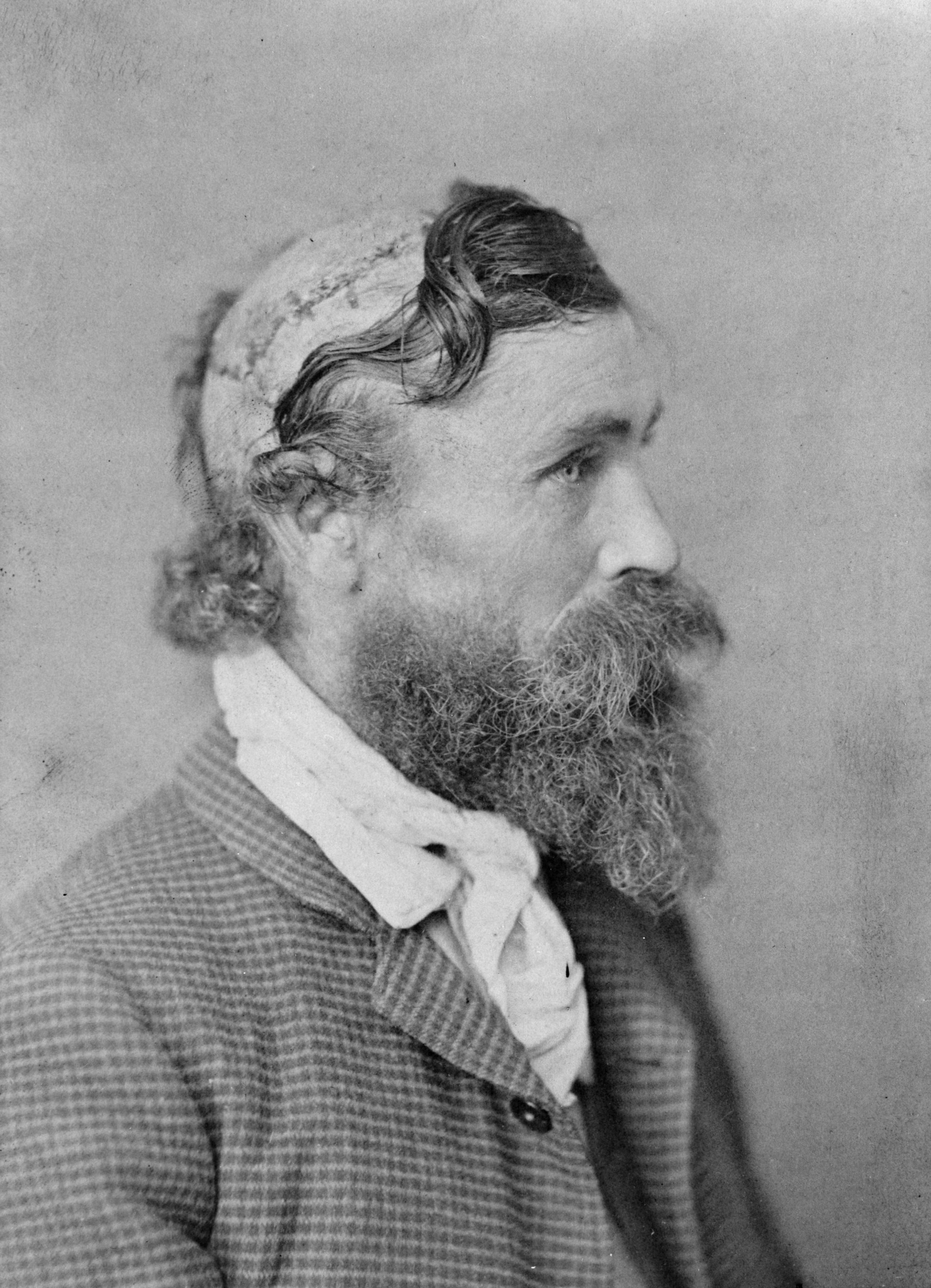 Robert McGee, scalped in 1864 as a child by Sioux Chief Little Turtle. CREATED/PUBLISHED: c 1890. CREATOR: Henry, E. E., 1826-1917, photographer.